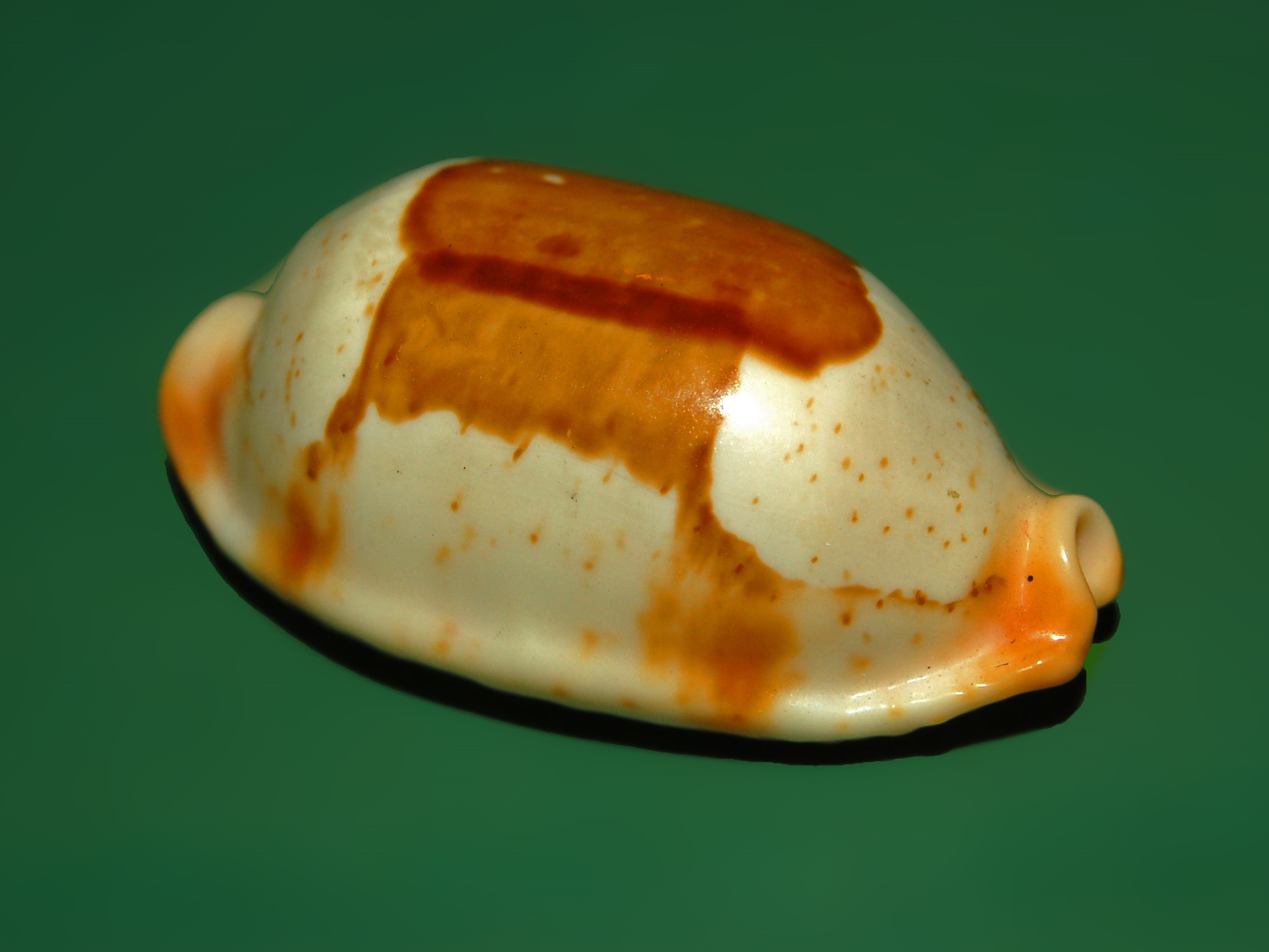 Bistolida stolida - Philippines